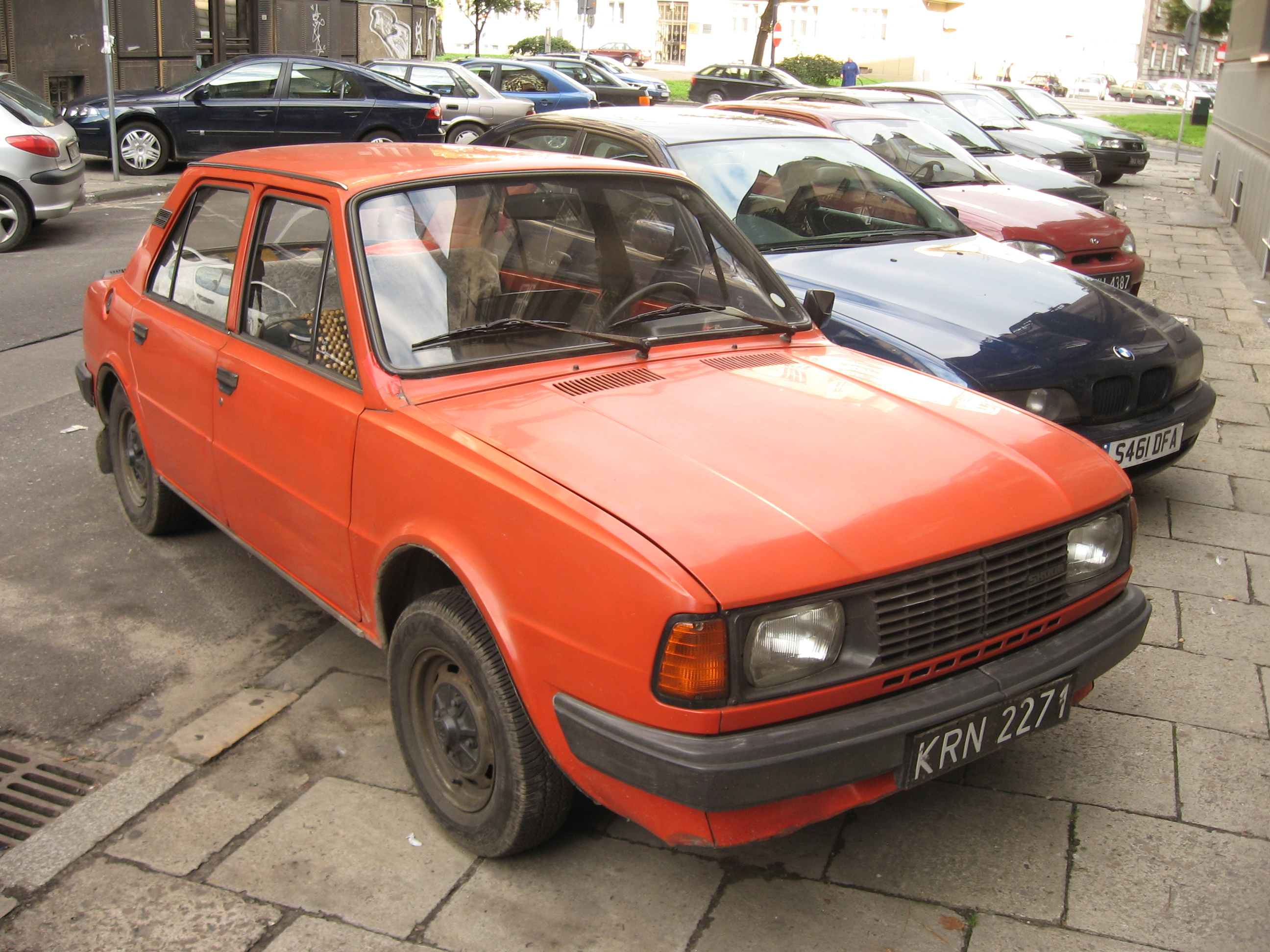 Škoda 105 L car in Kraków, Poland.